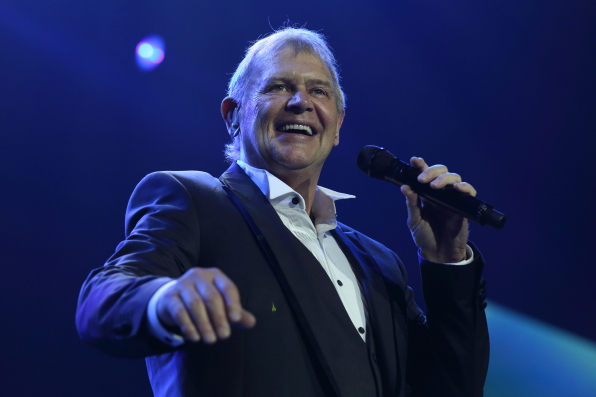 John Farnham performing live in Brisbane on the 10th of March 2014.